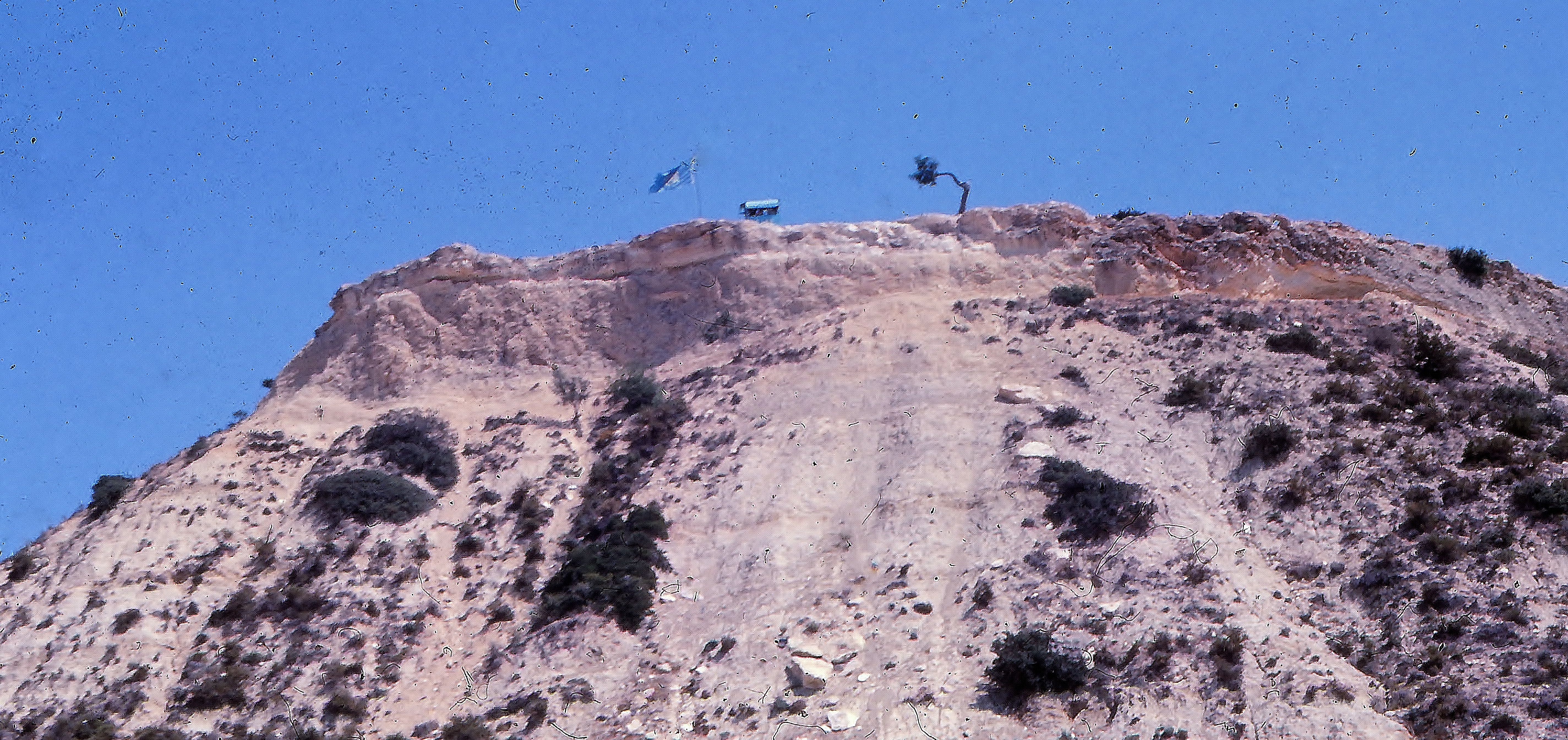 The UN post, manned by soldiers of 3rd Battalion The Royal Anglian Regiment , overlooking the village of Mari located 1500 metres NW of the southern port of Zygi.